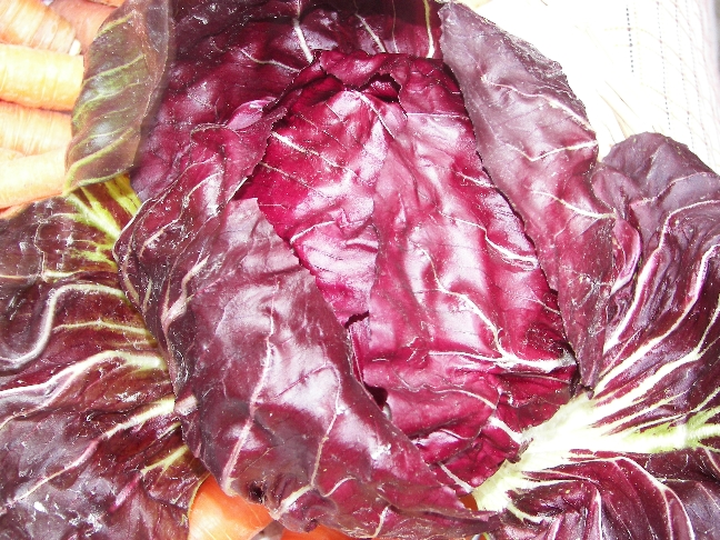 I made this picture myself today; I bought the radicchio.